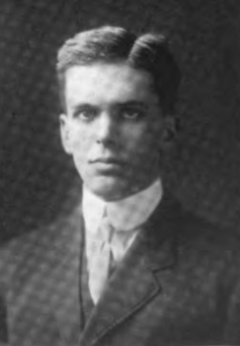 American businessman Harold Stanley (1885–1963) in a Yale College yearbook photo from 1908.